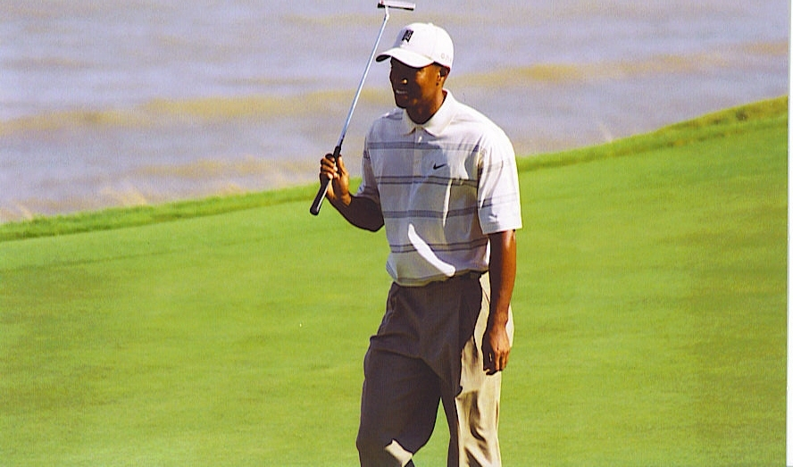 Tiger Woods at 2004 PGA Championship in Kohler, Wisconsin